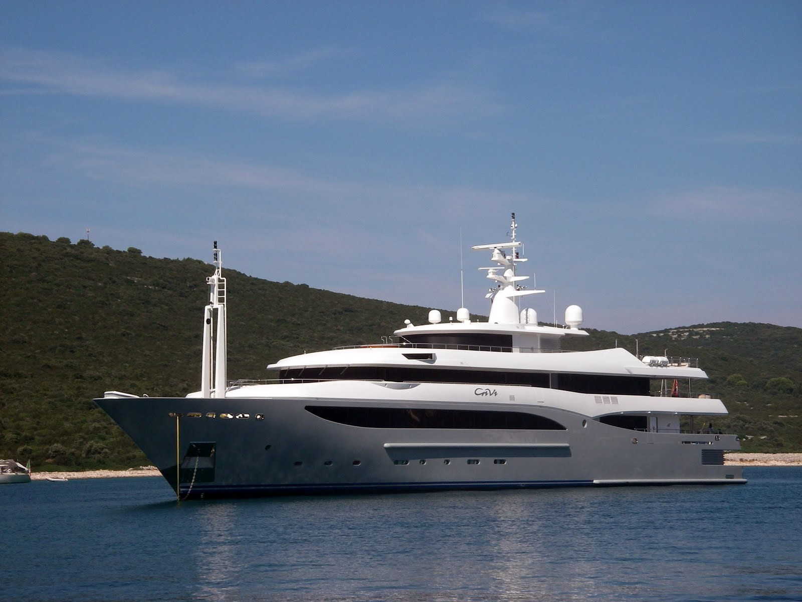 Mega yacht in the port Ist.